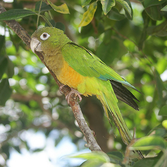 Caatinga Parakeet (also known as Cactus Parakeet) in Brazil.